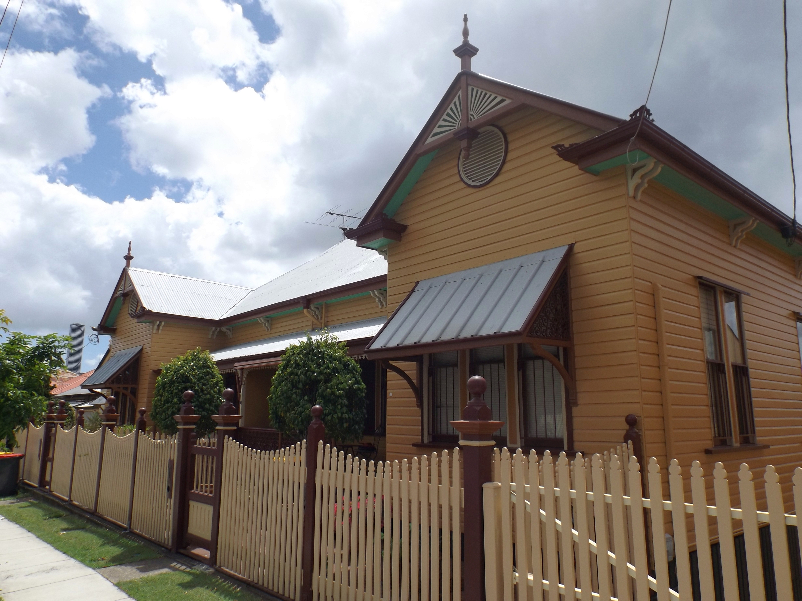 Photo of Brighton Terrace at West End, Brisbane, Queensland, Australia.